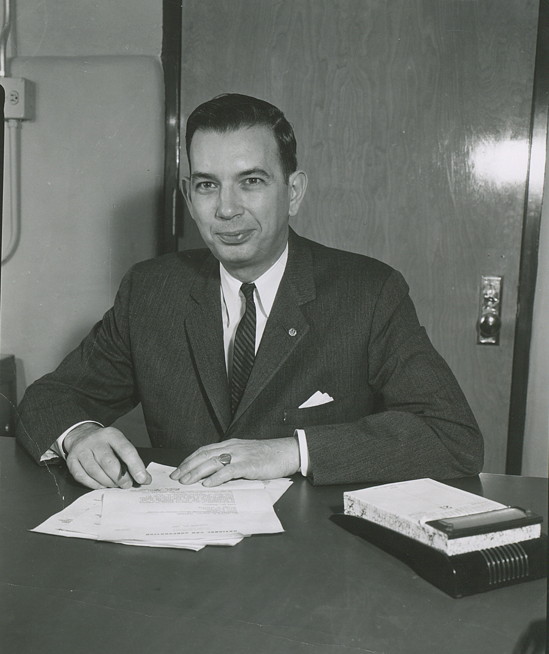 I am the grandson of Walter M Urbain and would like to add a picture to his wikipedia page. This photograph is owned by the Urbain family.